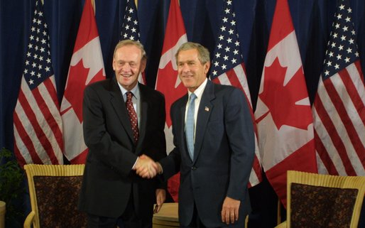 President George W. Bush and Canadian Prime Minister Jean Chretien address the media before their bilateral meeting on United States of America - Canada Smart Borders in Detroit, Michigan.